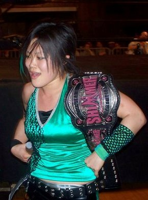 Tomoko Nagakawa after winning the Shimmer Tag Team Championship